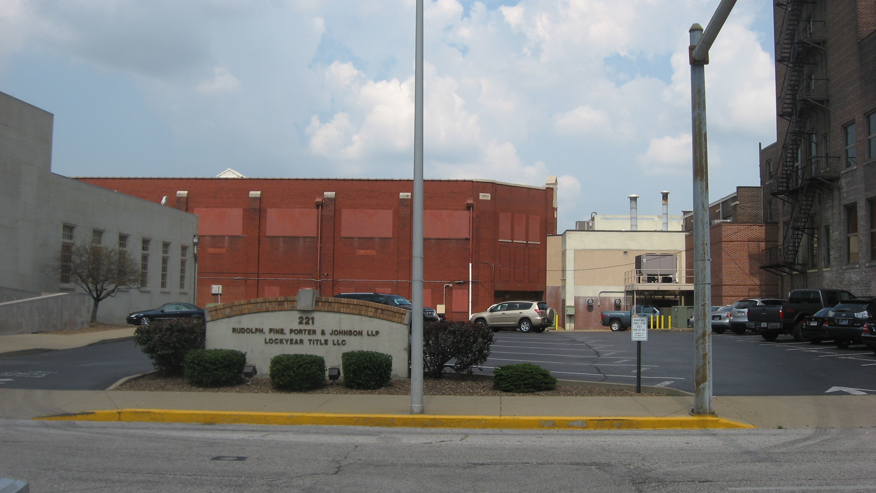 A parking lot on the site of the Lockyear College, located at 209 NW. Fifth Street in Evansville, Indiana, United States. Built in 1911, it was listed on the National Register of Historic Places in 1984; although it has been demolished, it remains on the Register.